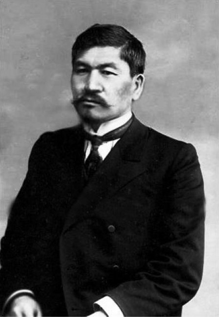 Alikhan Bukeikhanov. Karl Bulla Studio, St. Petersburg